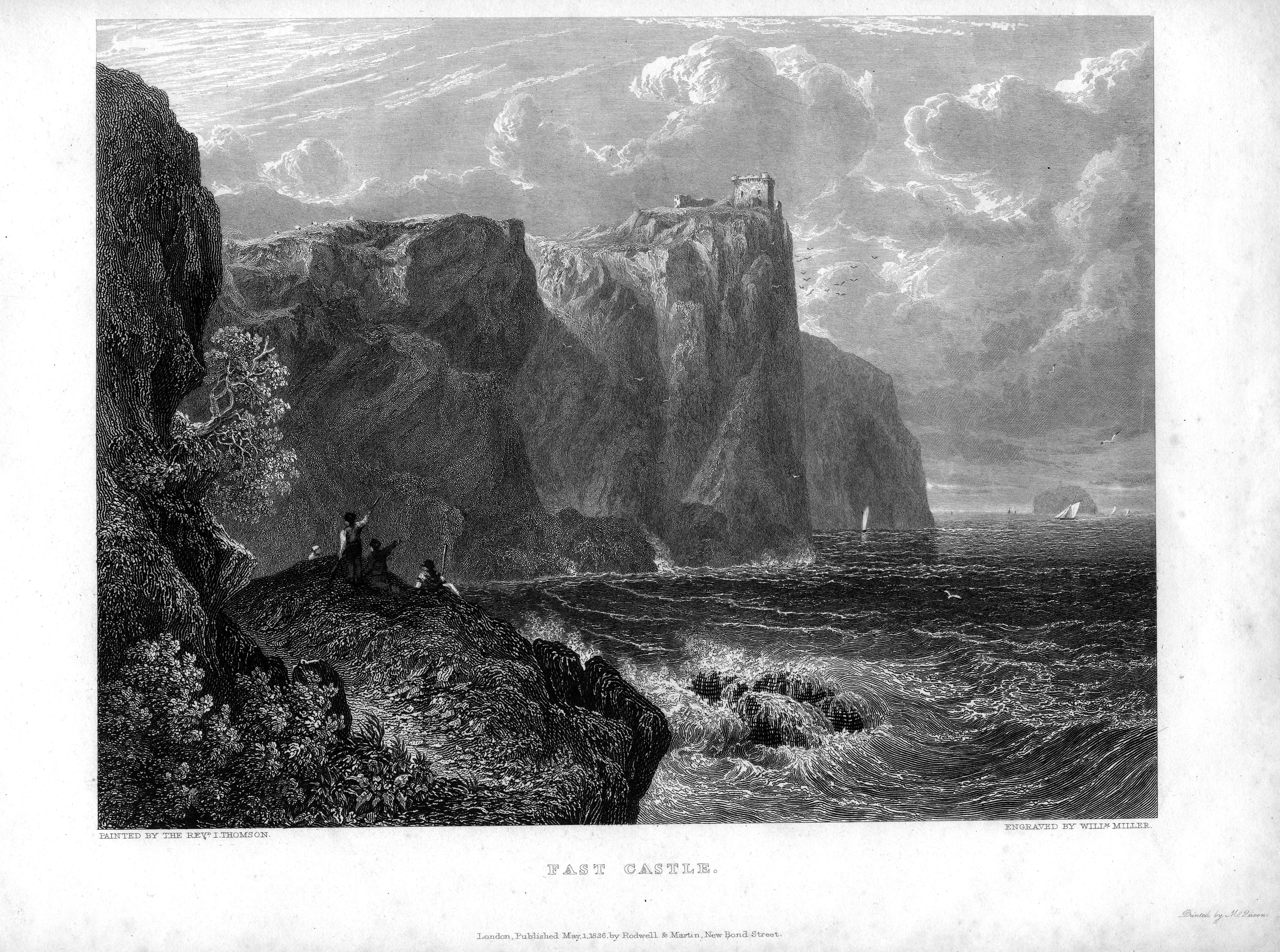 Fast Castle. engraving by William Miller after Rev J Thomson (Miller paid £52-10-0 in iv-1826 for engraving), published in Provincial Antiquities and Picturesque Scenery of Scotland, Walter Scott, J M W Turner and others, John and Arthur Arch, London 1826